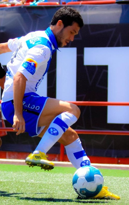 Pumas player luis garcia